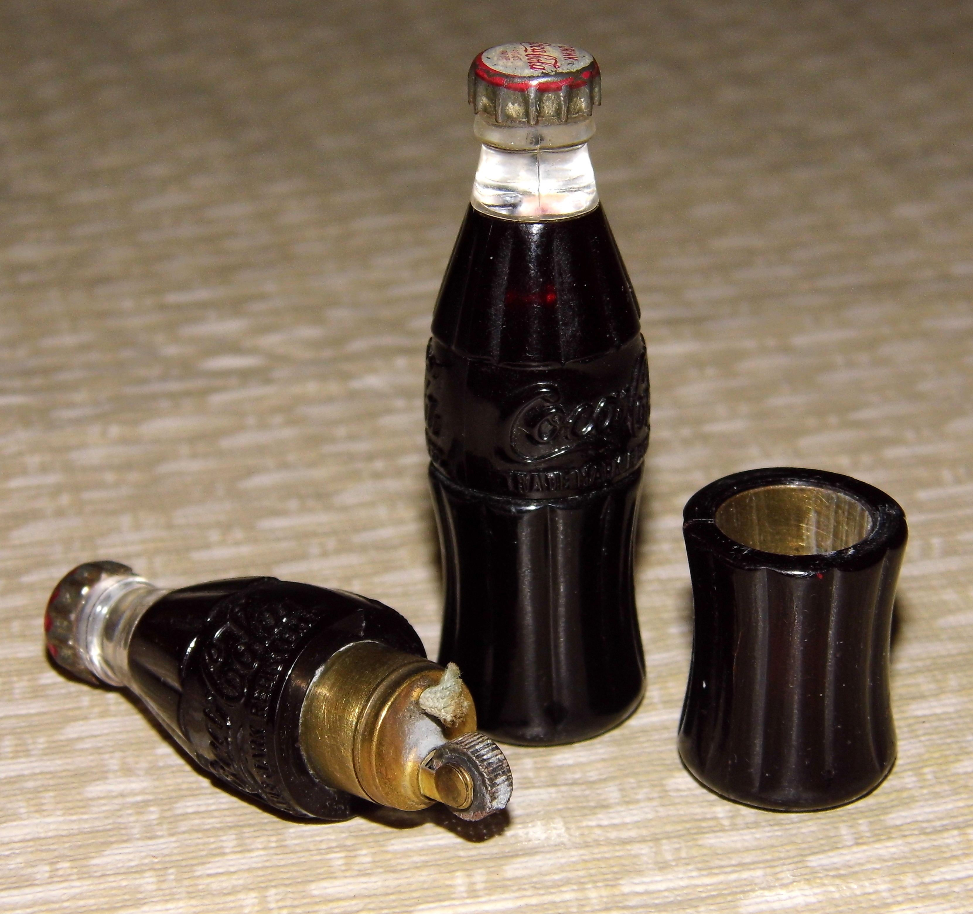 Pair of Vintage Coca-Cola Cigarette Lighters, About 2.5 Inches Tall